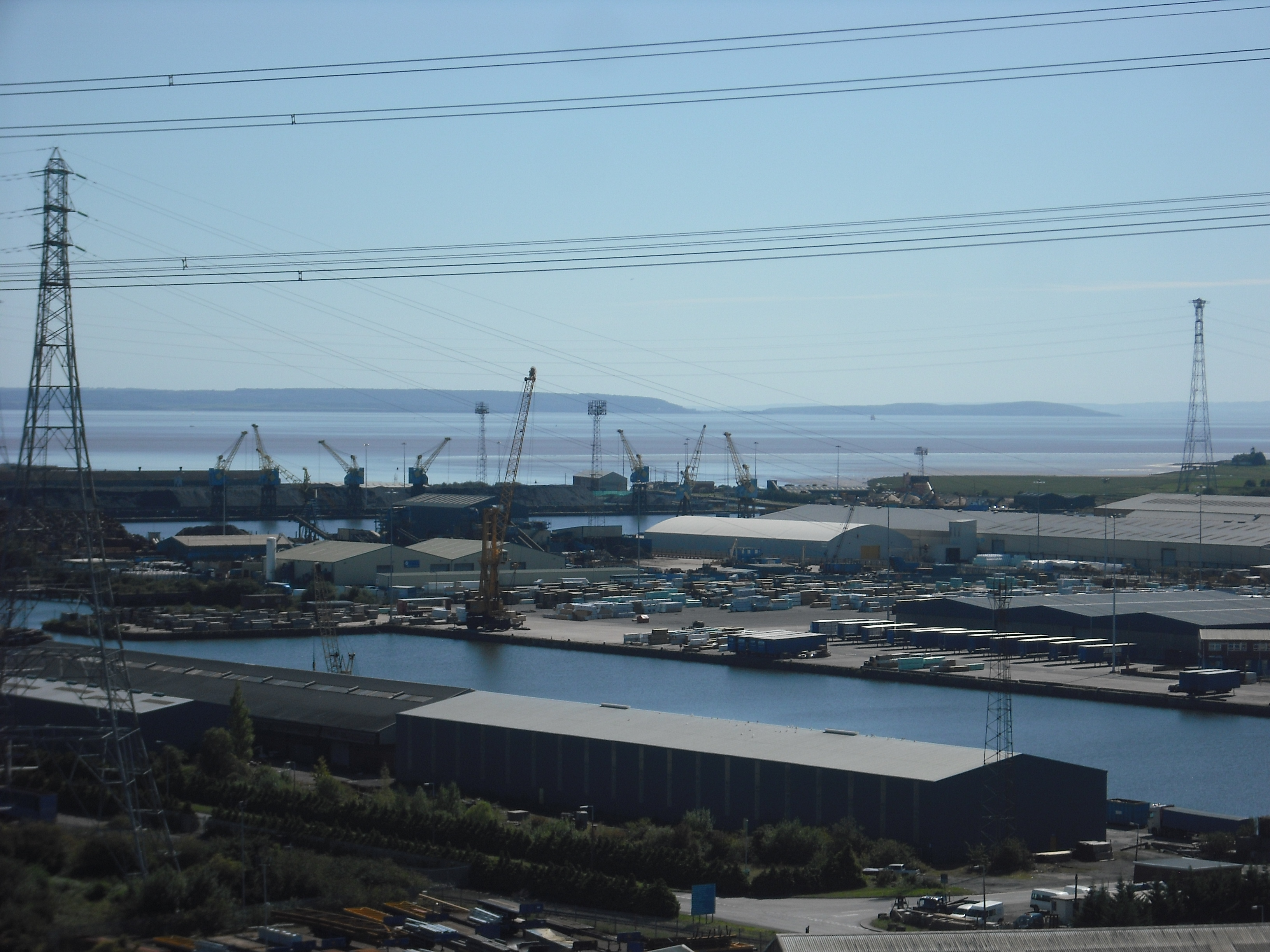 Newport docks, photographed from the Transporter Bridge